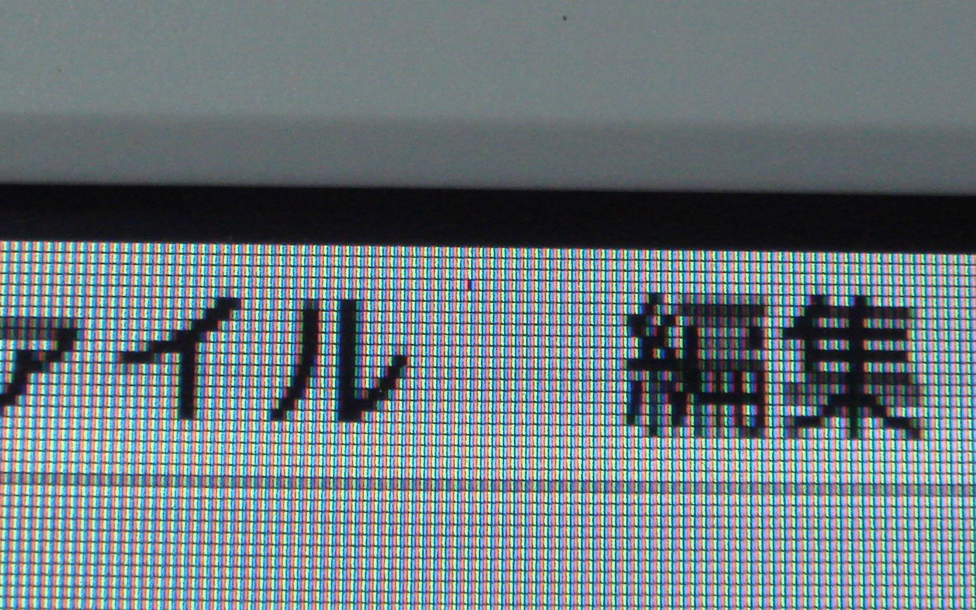 stuck pixels apple ibook